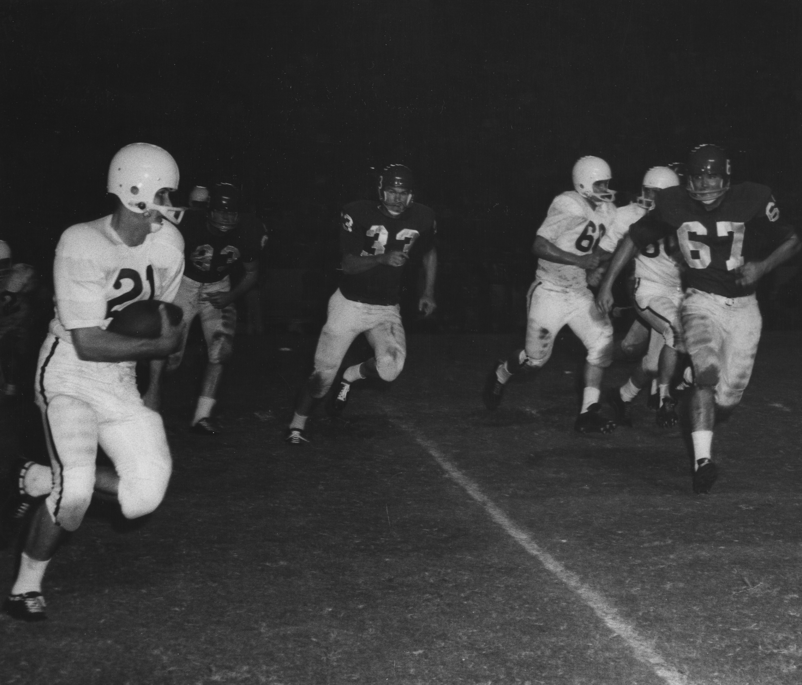 The 1958 Houston Cougars football team face off against the Texas A&M Aggies at Rice Stadium in Houston, Texas. Caption reads: "A&M vs. University of Houston; Ags. Bubba McLean (#21) picks up 3 yrds. against Houston Cougars moving from Ags 39 yrd line to their 42 yrd line late in the game"